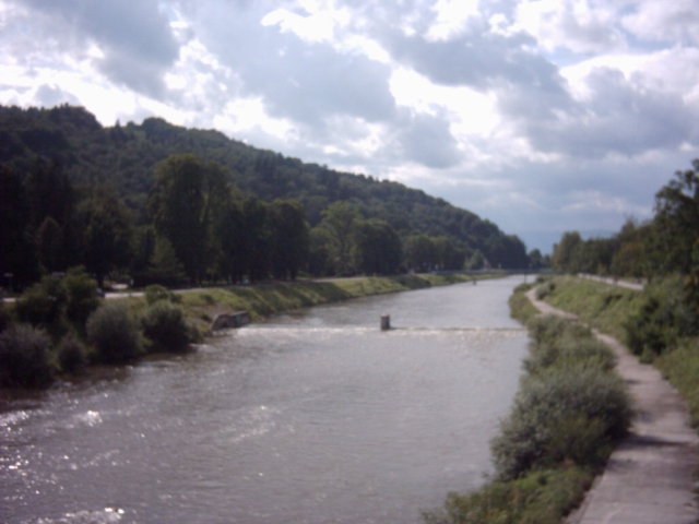 Savinja in Celje, before it turns south to Laško, July 2004.